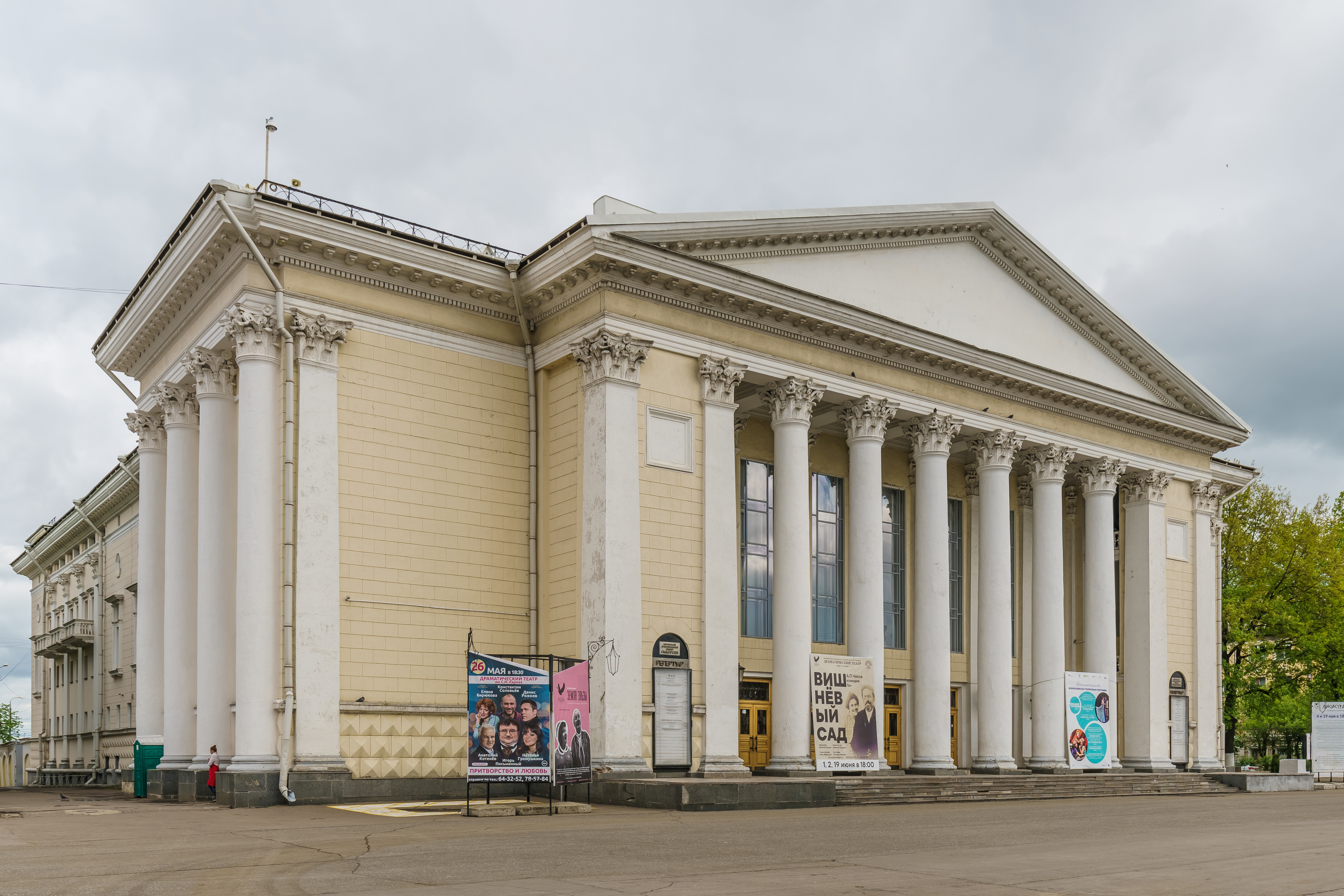 Building of the Drama Theatre in Kirov, Russia